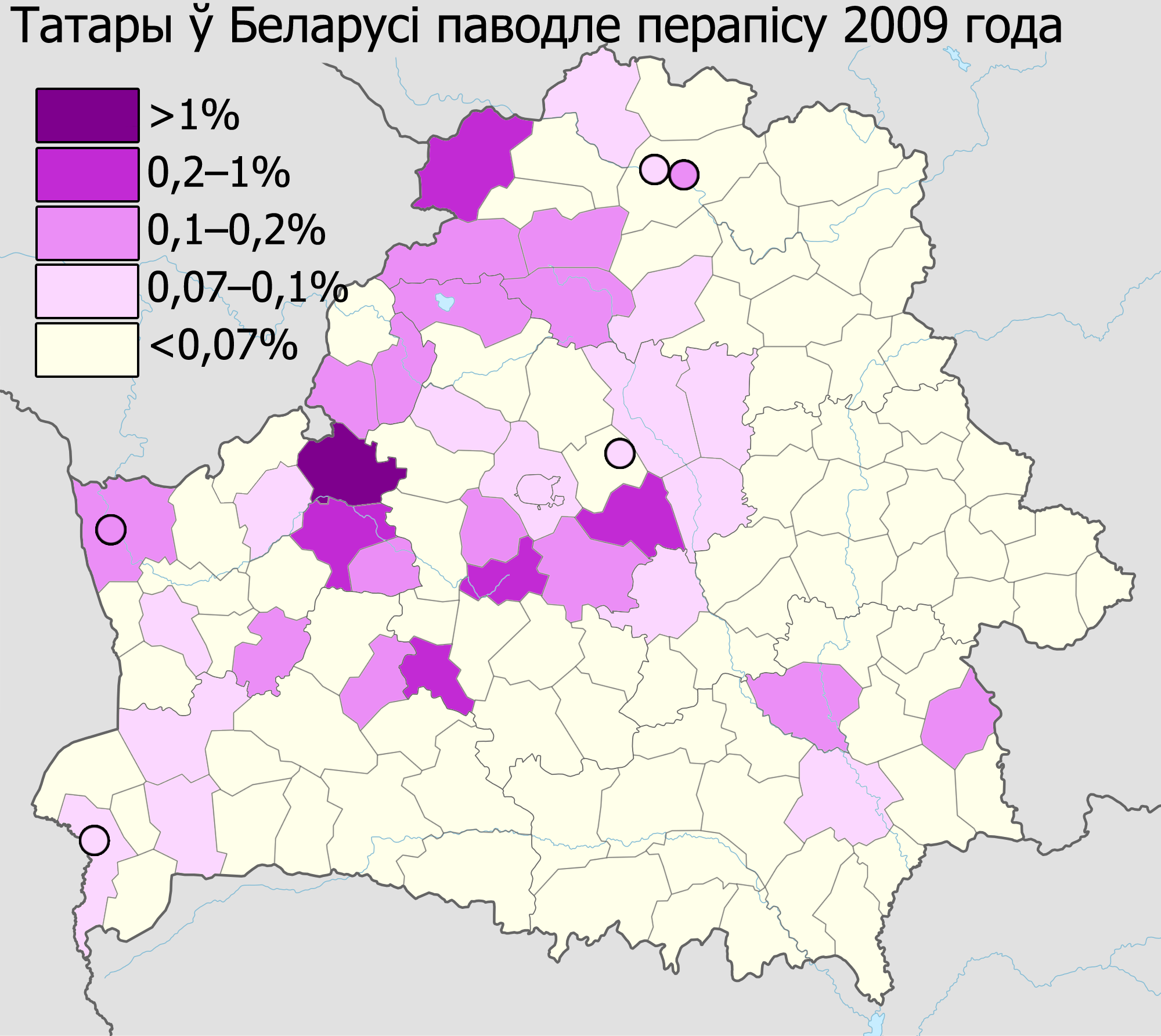 Tatars in Belarus according to 2009 census